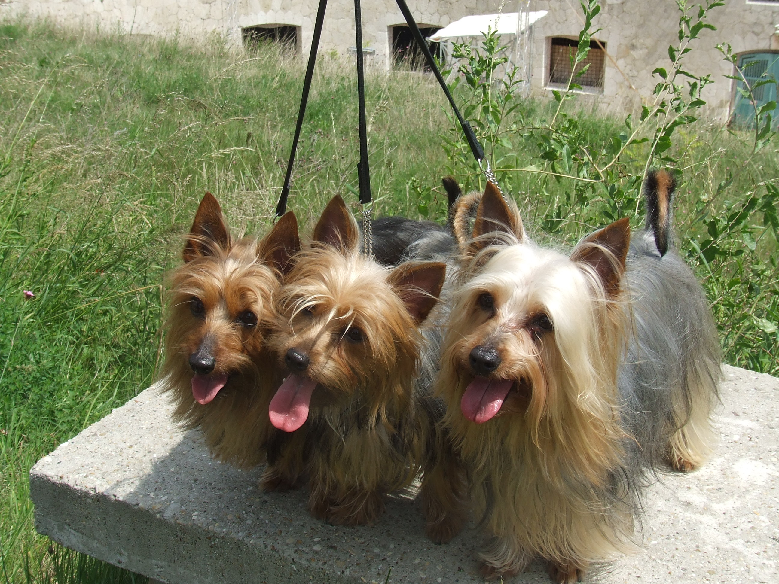 Australian Silky Terrier Of Silky'S Dream